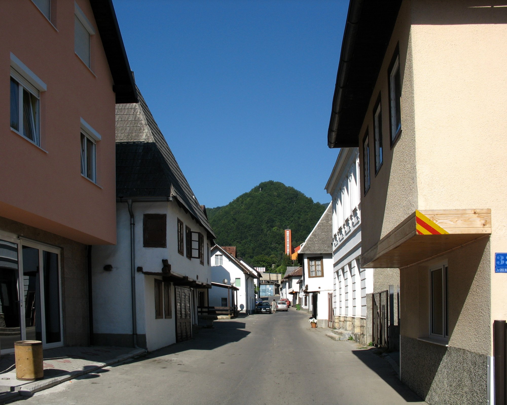 town Kreševo in Bosnia - Street fra Grge Martiča